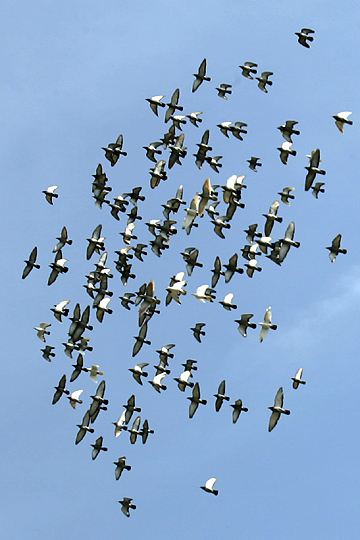 Flock of birds in flight